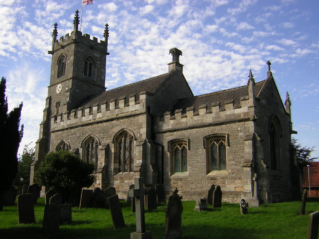 St.Peter & St.Mary's church, Bothamsall, Notts. Neo-perpendicular of 1845 replacing a medieval church. Two clues can be found inside - a very early brass to a lady of c1370 and a perpendicular font.